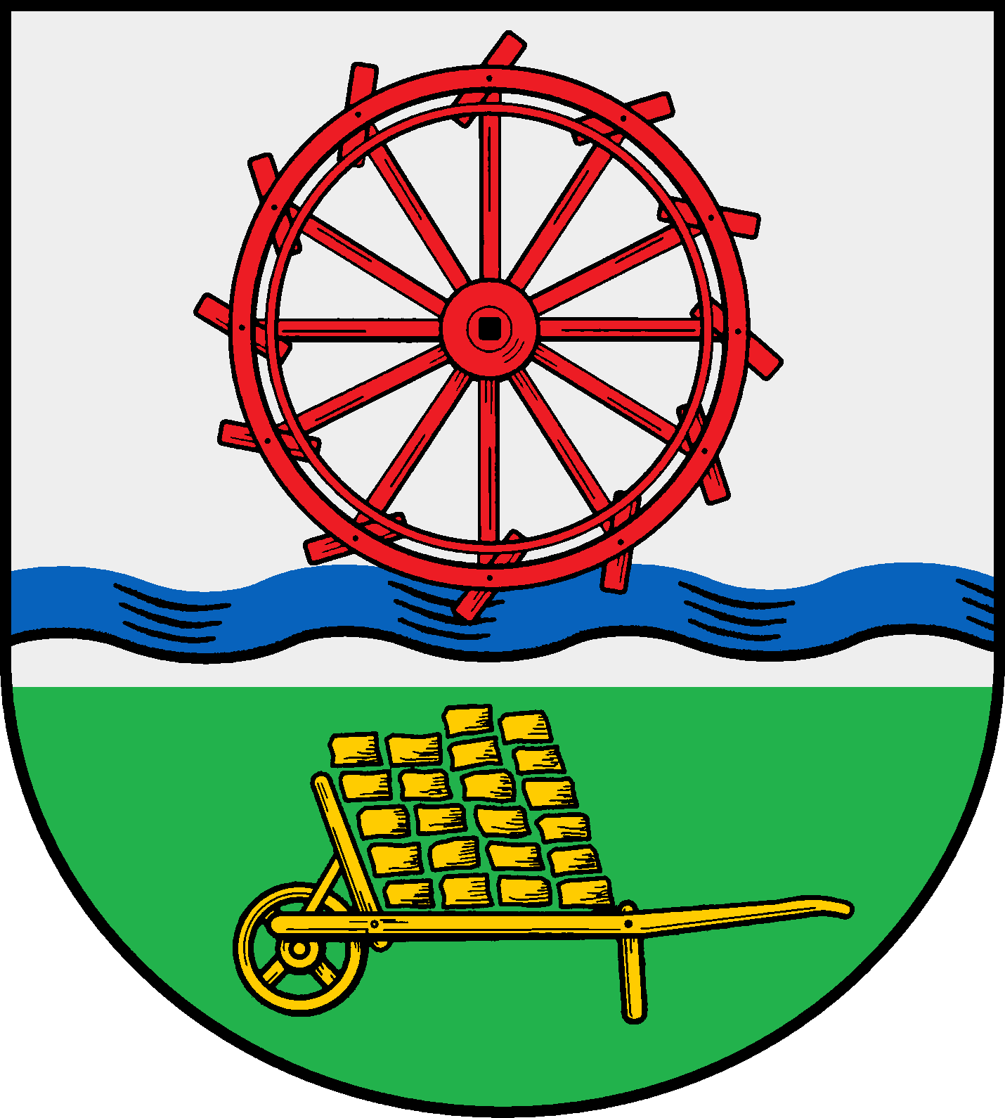 Coat of arms of the municipality Bimöhlen in Schleswig-Holstein, Germany.